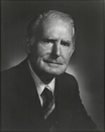 Edward J. Stack. A U.S. representative from Florida's 12th congressional district.